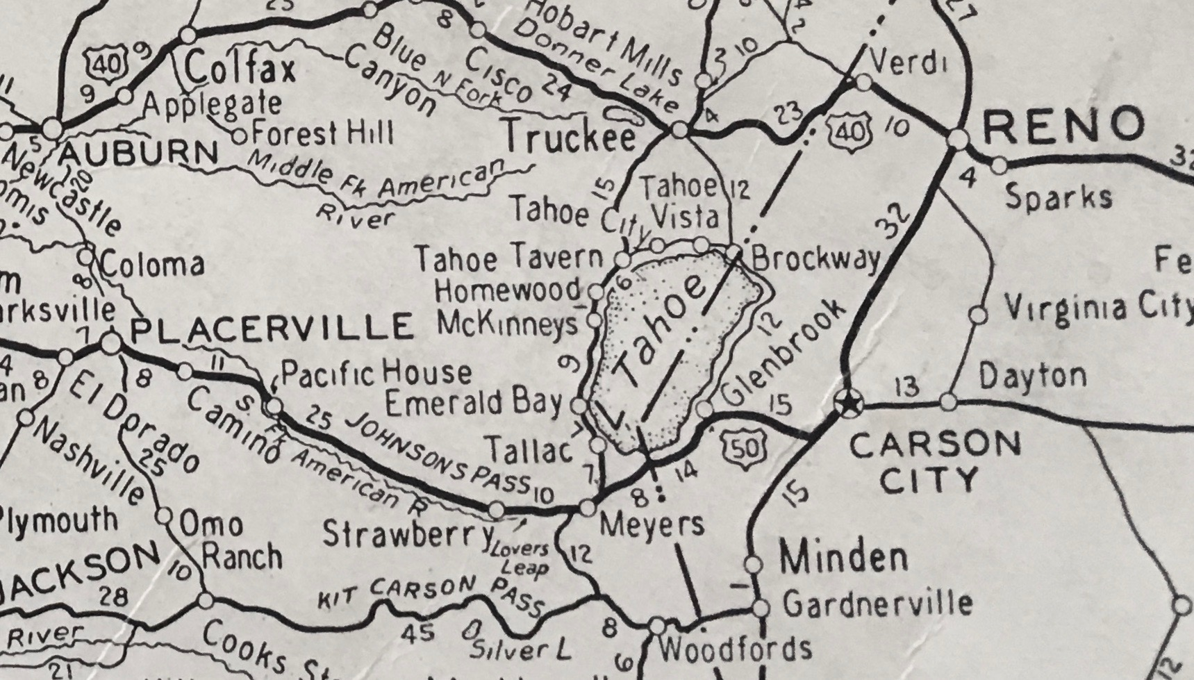 1937 Highway system and place names in the Tahoe vicinity